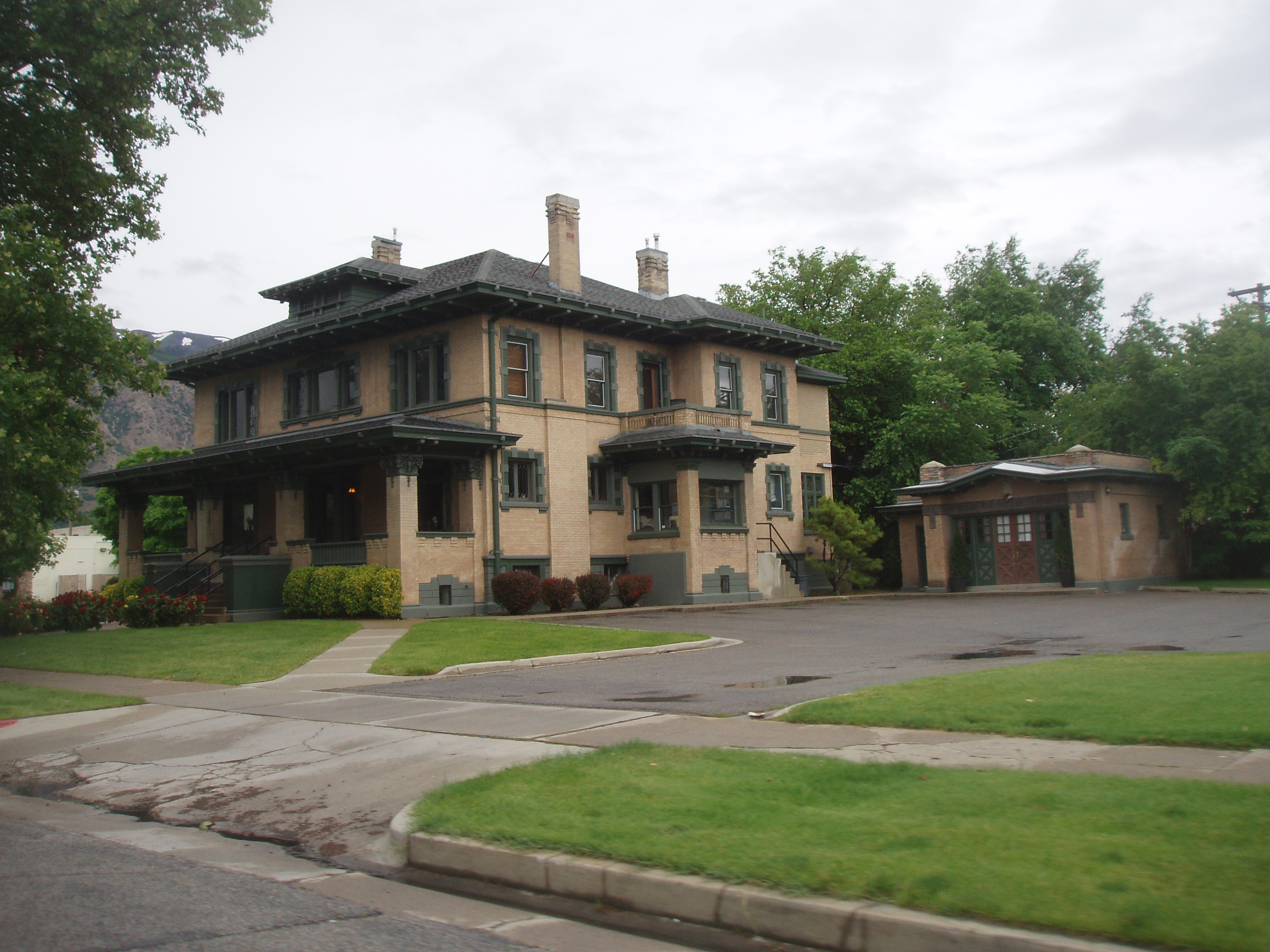 The Heber Scowcroft House, a historic home in Ogden, Utah, United States.